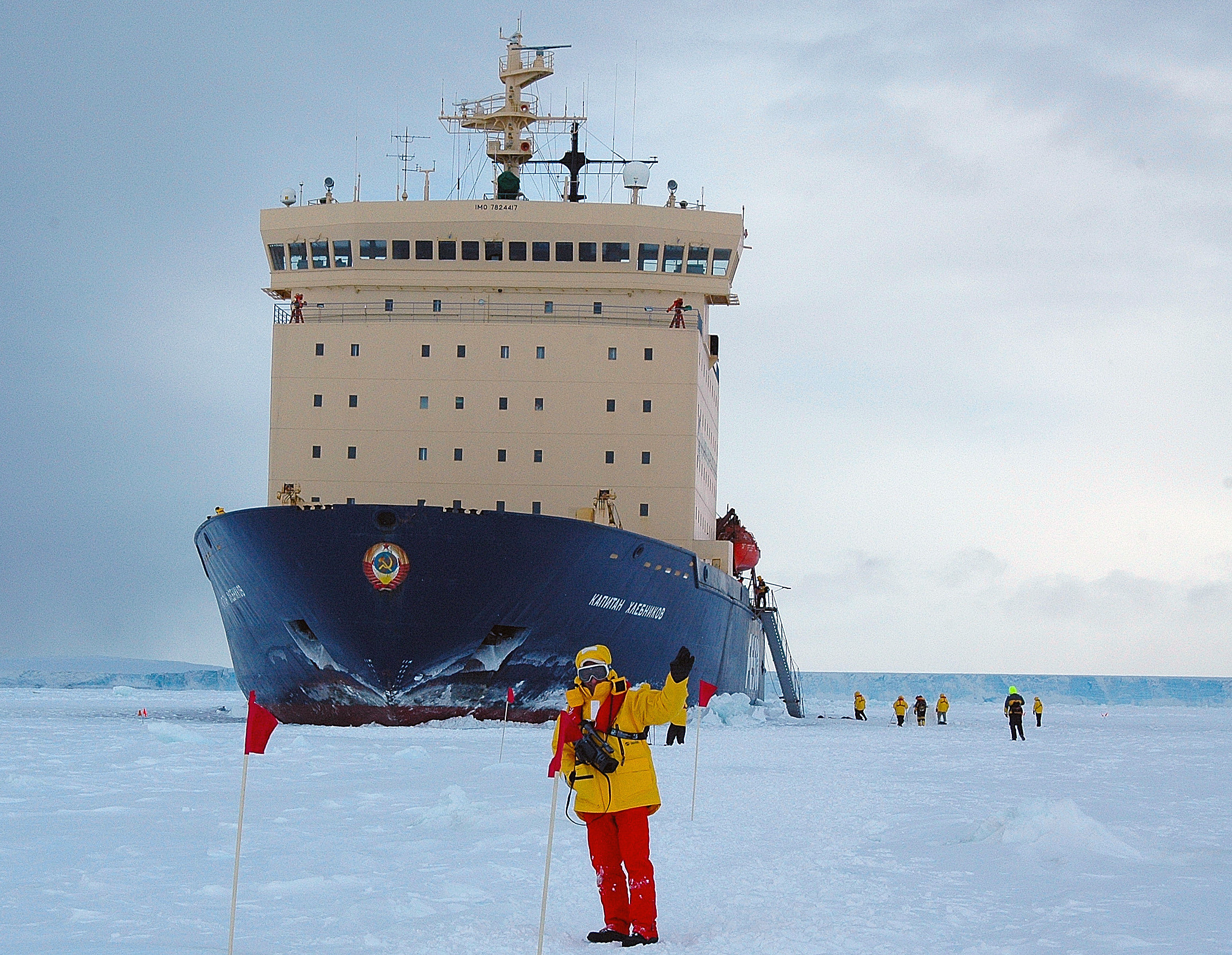 Explorer on sea ice in front of icebreaker